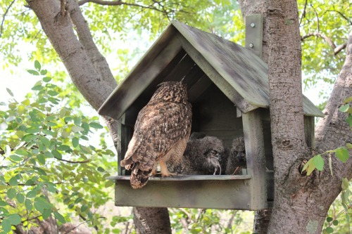 A mother Spotted Eagle Owl is feeding young owlets